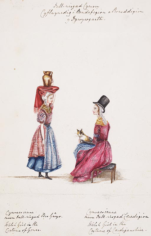 Cambrian Costumes Welsh girl in the costume of part of Gower (feft) and Cardiganshire